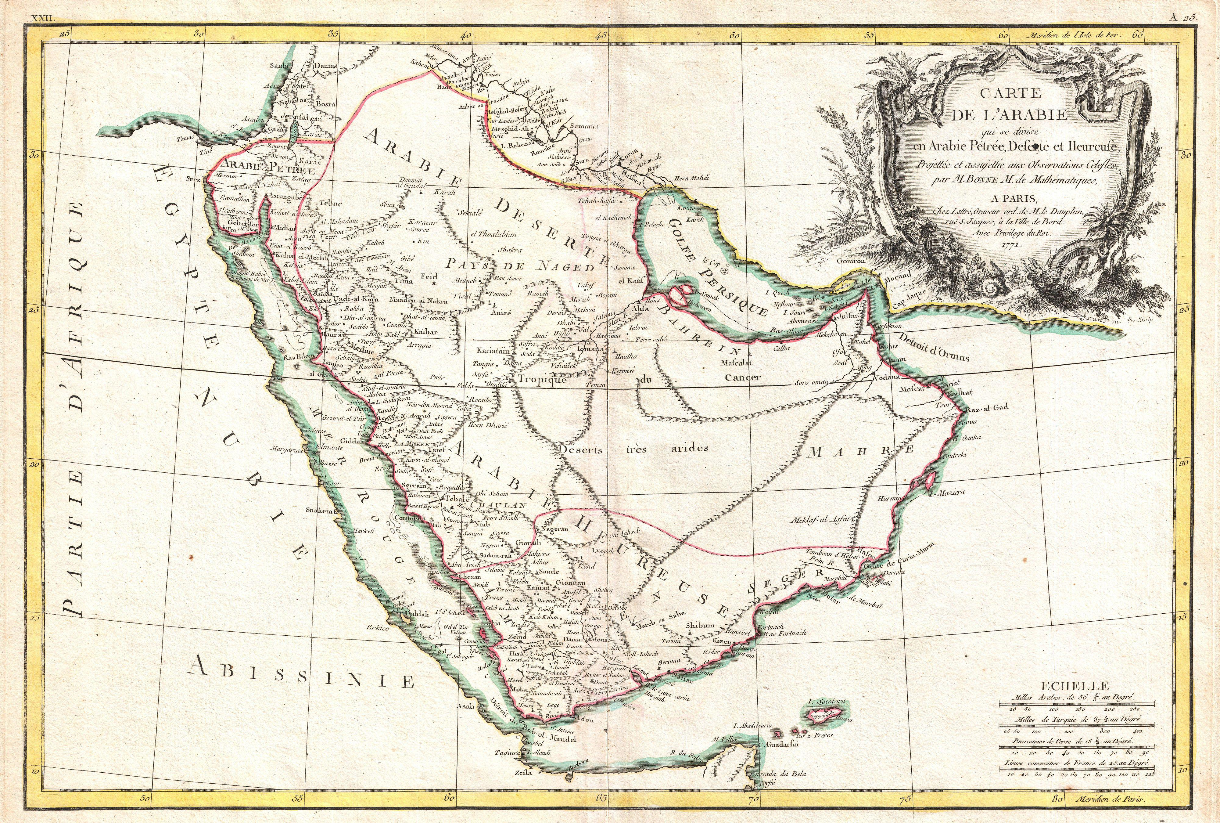 A beautiful example of Rigobert Bonne's 1771 decorative map of the Arabian Peninsula. Covers from the Mediterranean to the Indian Ocean and from the Red Sea to the Persian Gulf. Includes the modern day nations of Saudi Arabia, Palestine, Jordan, Kuwait, Iraq, Yemen, Oman, the United Arab Emirates, and Bahrain. Names Mt. Sinai, Mecca and Jerusalem as well as countless other cities and desert oases. Also notes numerous offshore shoals, reefs, and other dangers in the Red Sea and the Persian Gulf. There is a large decorative title cartouche in the upper right hand quadrant. A fine map of the region. Drawn by R. Bonne in 1771 for issue as plate no. A 25 in Jean Lattre's 1776 issue of the Atlas Moderne .